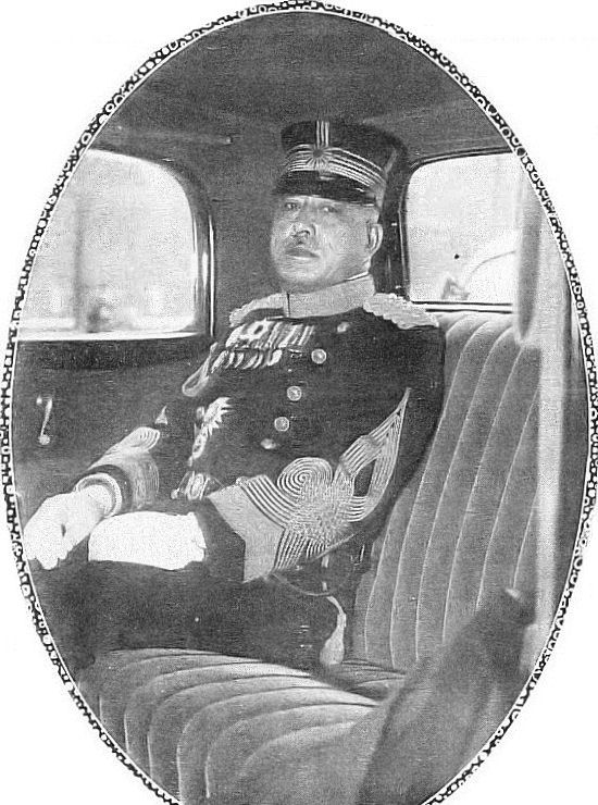 Tsuneichi Iwakoshi